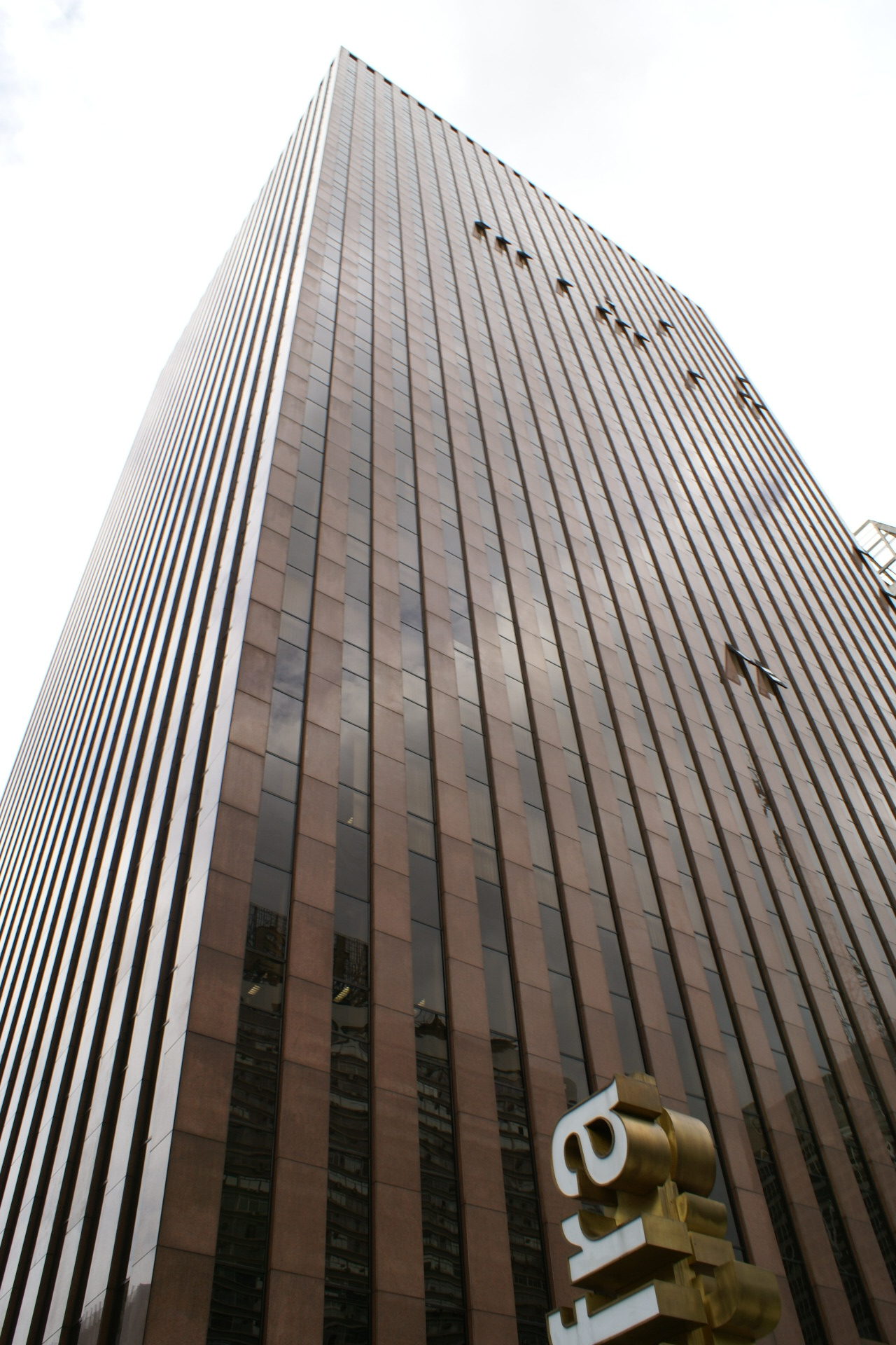 Safra Bank Headsquarters in Paulista Avenue, São Paulo City, Brazil